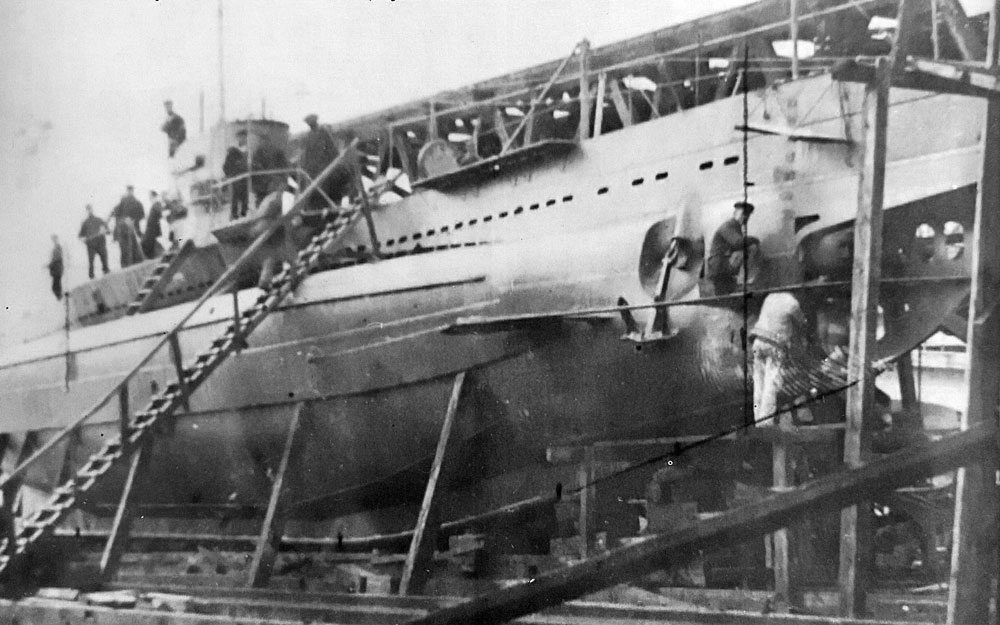 The back of SM U-31 submarine during its assembly in the Ganz - Danubius Company on 24 April of 1916